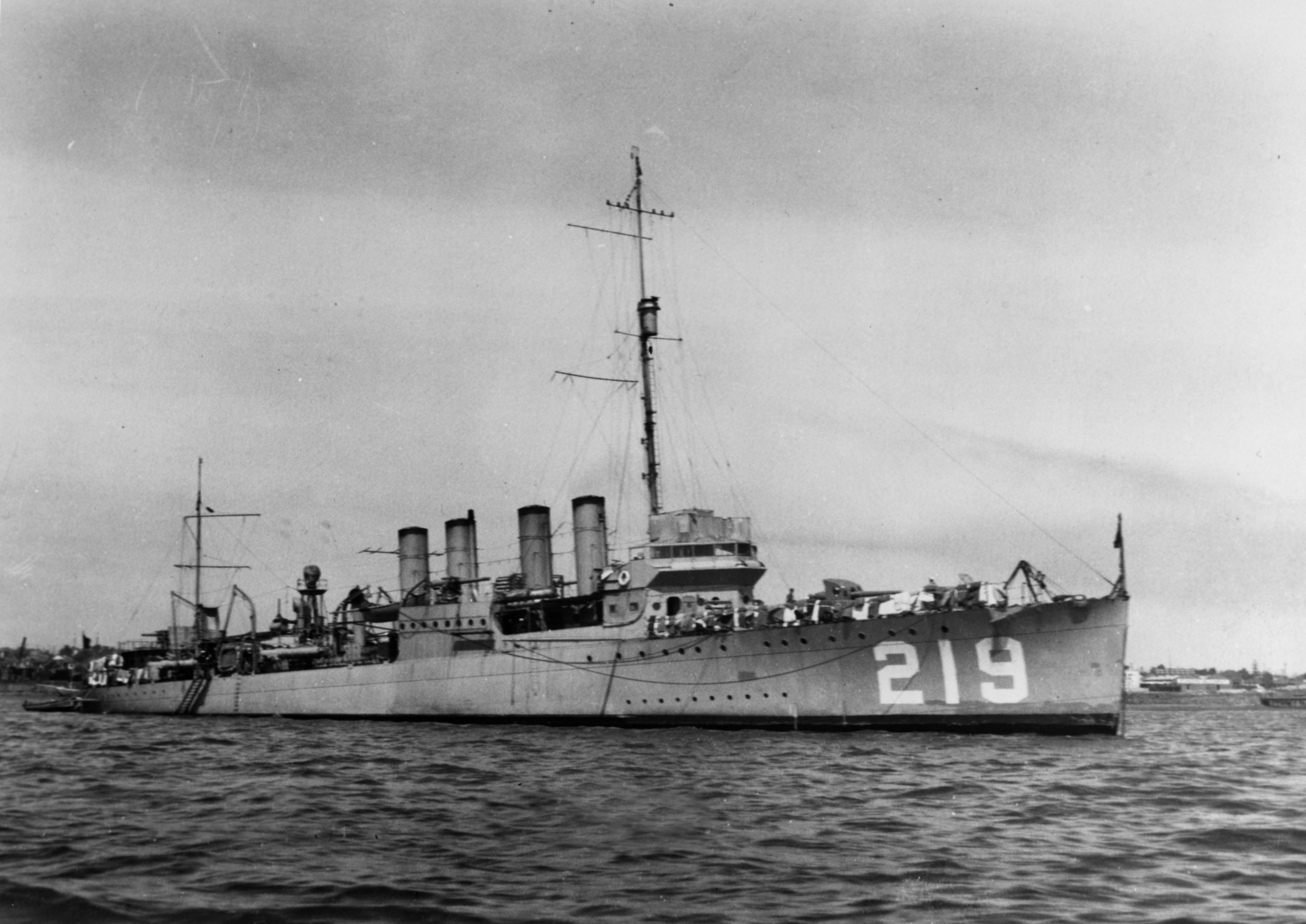 The U.S. Navy destroyer USS Edsall (DD-219) in San Diego Harbor, California (USA), during the early 1920s.